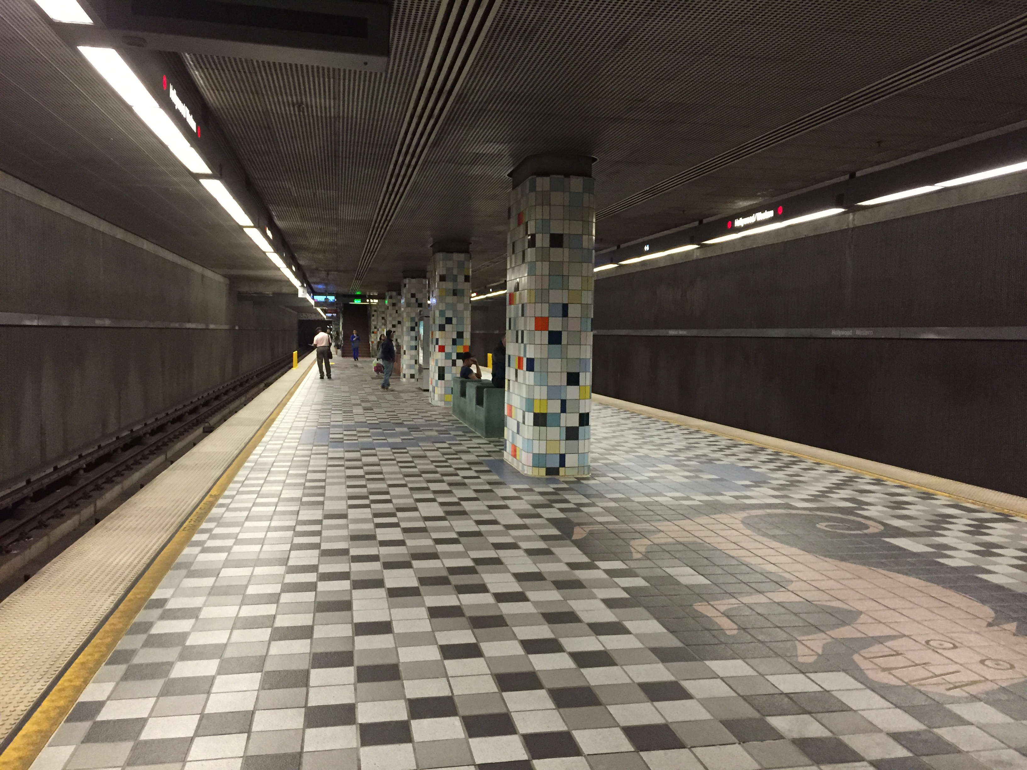 Platform of the Hollywood/Western LACMTA station in East Hollywood, Los Angeles, California in 2016.